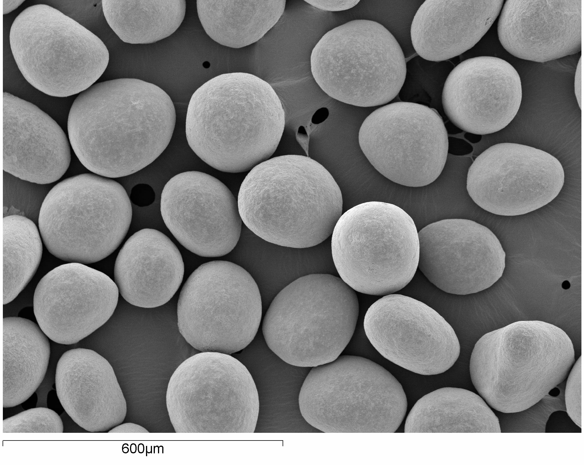 Image of goethite-coated silica sand from Laem Ngob black sand beach under Scanning Electron Microscope